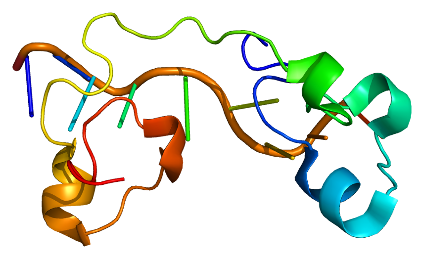 Structure of the ZFP36L1 protein. Based on PyMOL rendering of PDB 1rgo.